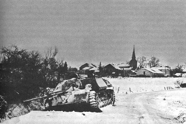 An abandoned German Jagdpanzer IV at Cherain, Belgium.